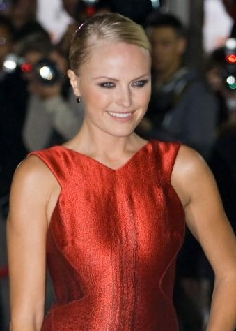 At the premiere of "The Bang Bang Club", directed by Steven Silver, during the Toronto International Film Festival, 2010.